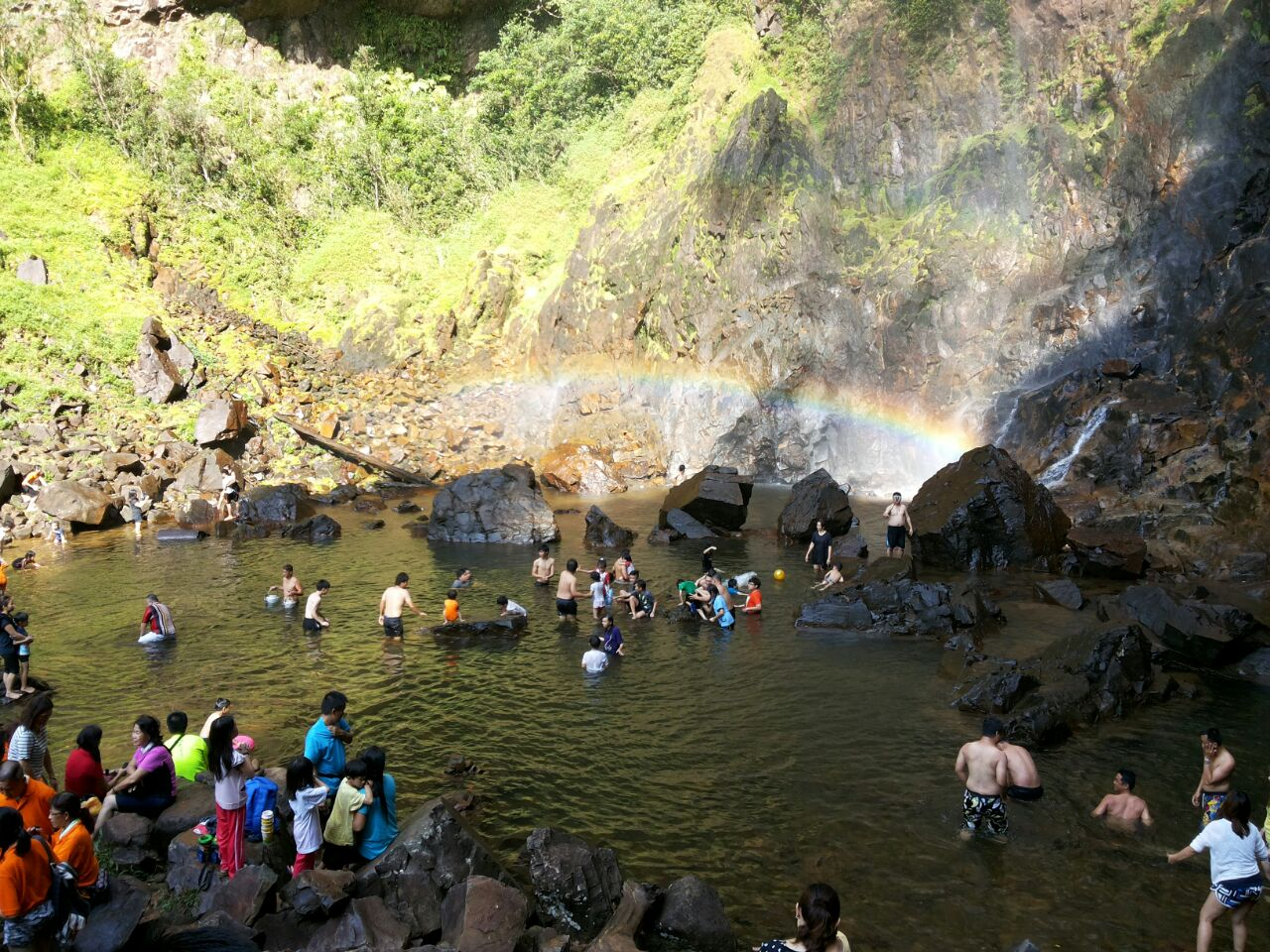 Rainbow Waterfall in Sungai Lembing,the tourist place of Pahang, Malaysia